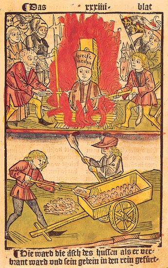 Jan Hus, religious reformator, condamned from Councile in Constance in year 1415